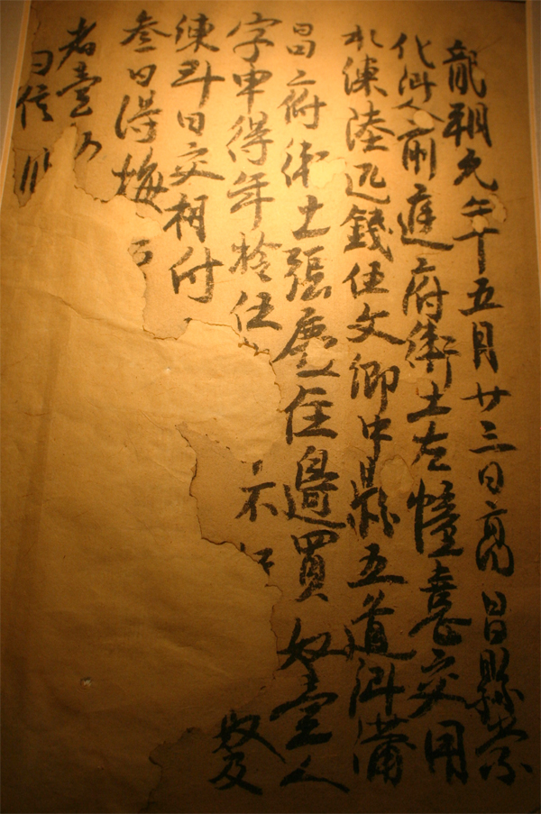 A contract for the purchase of a slave during the Tang dynasty (661 ACE) in Turpan, Xinjiang. The Contract records the purchase of a 15 year-old slave for six bolts of plain silk and five Chinese coins. Silk Museum, Hangzhou, China.